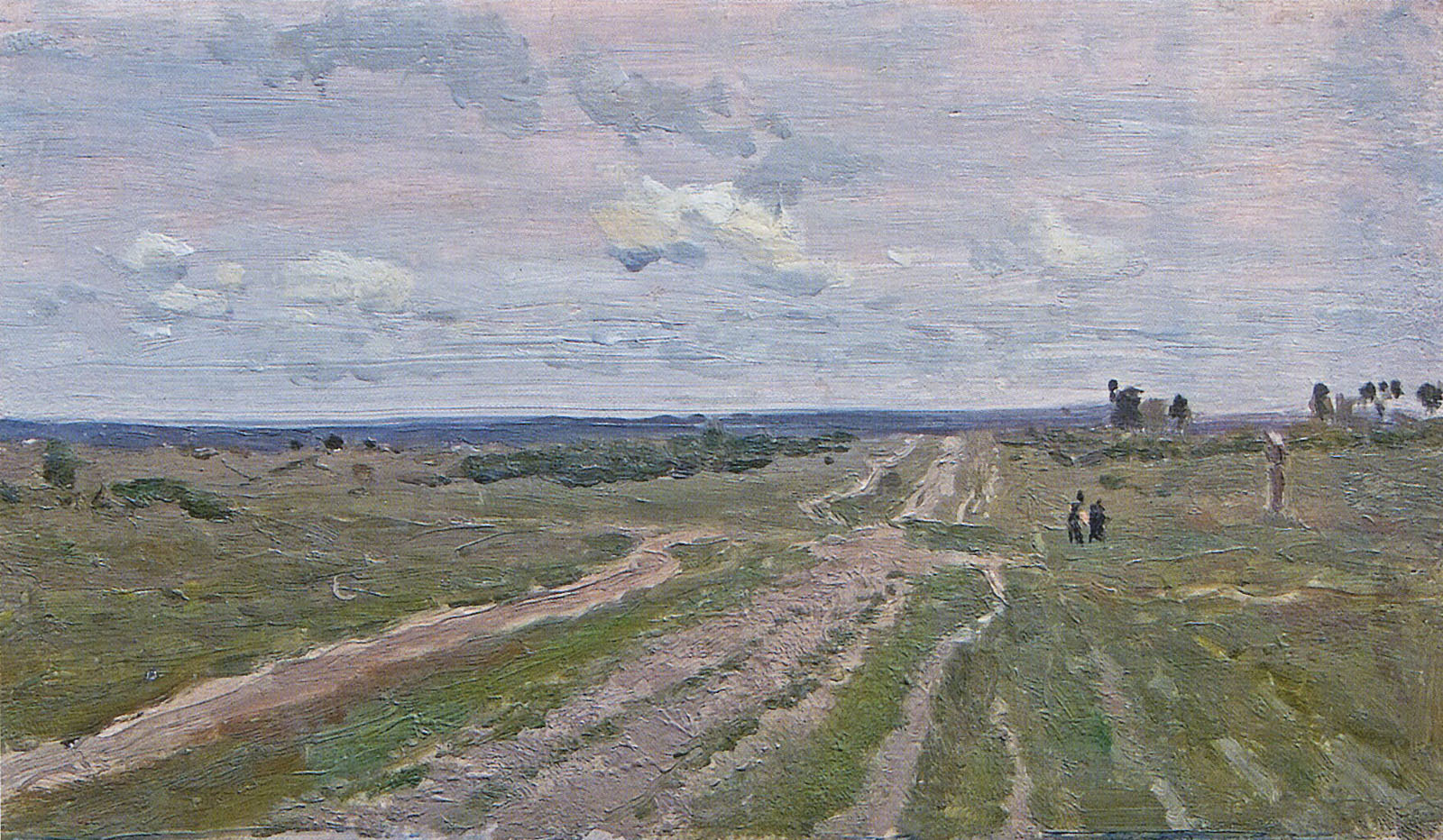 The Vladimirka road (study by Isaac Levitan, 1892)